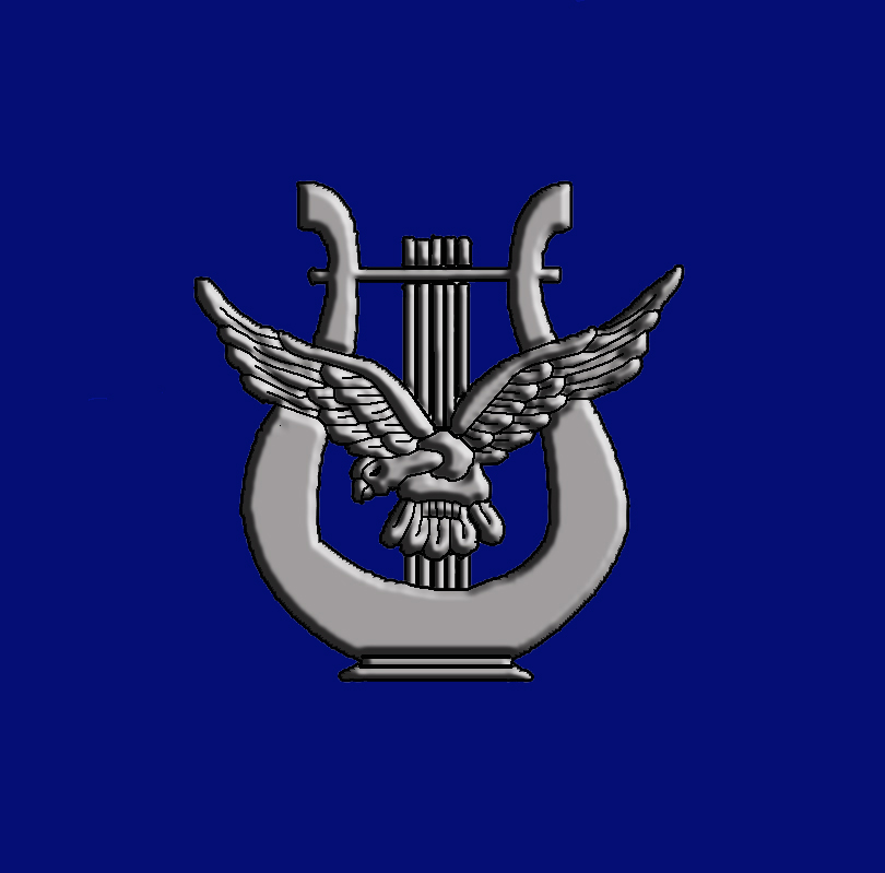 proyecto